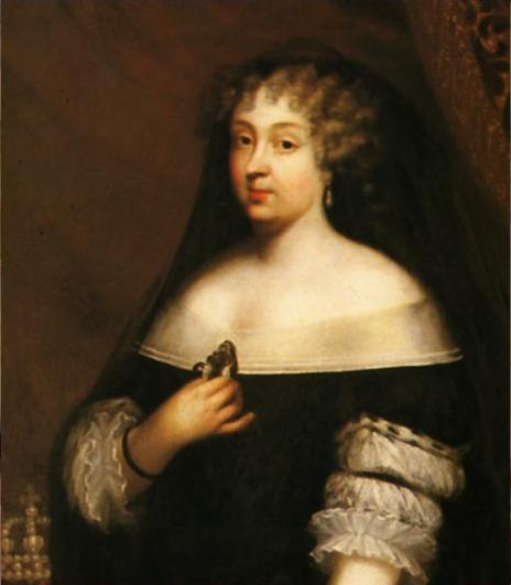 Portrait of Marie Jeanne Baptiste of Savoy (1644-1724) as a widow with the Savoyard crown behind her